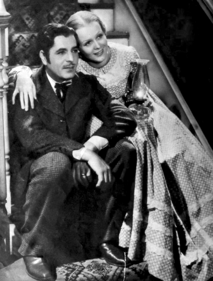 Still from The Prisoner of Shark Island, 1936